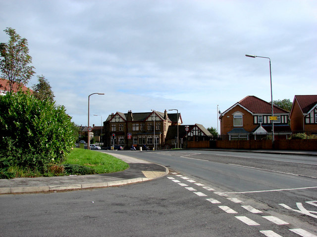 The Halfway House, Robin Hood. This picture is the Halfway House Pub, so called because it is half way between Leeds and Wakefield, viewed from Thorpe Lower lane.